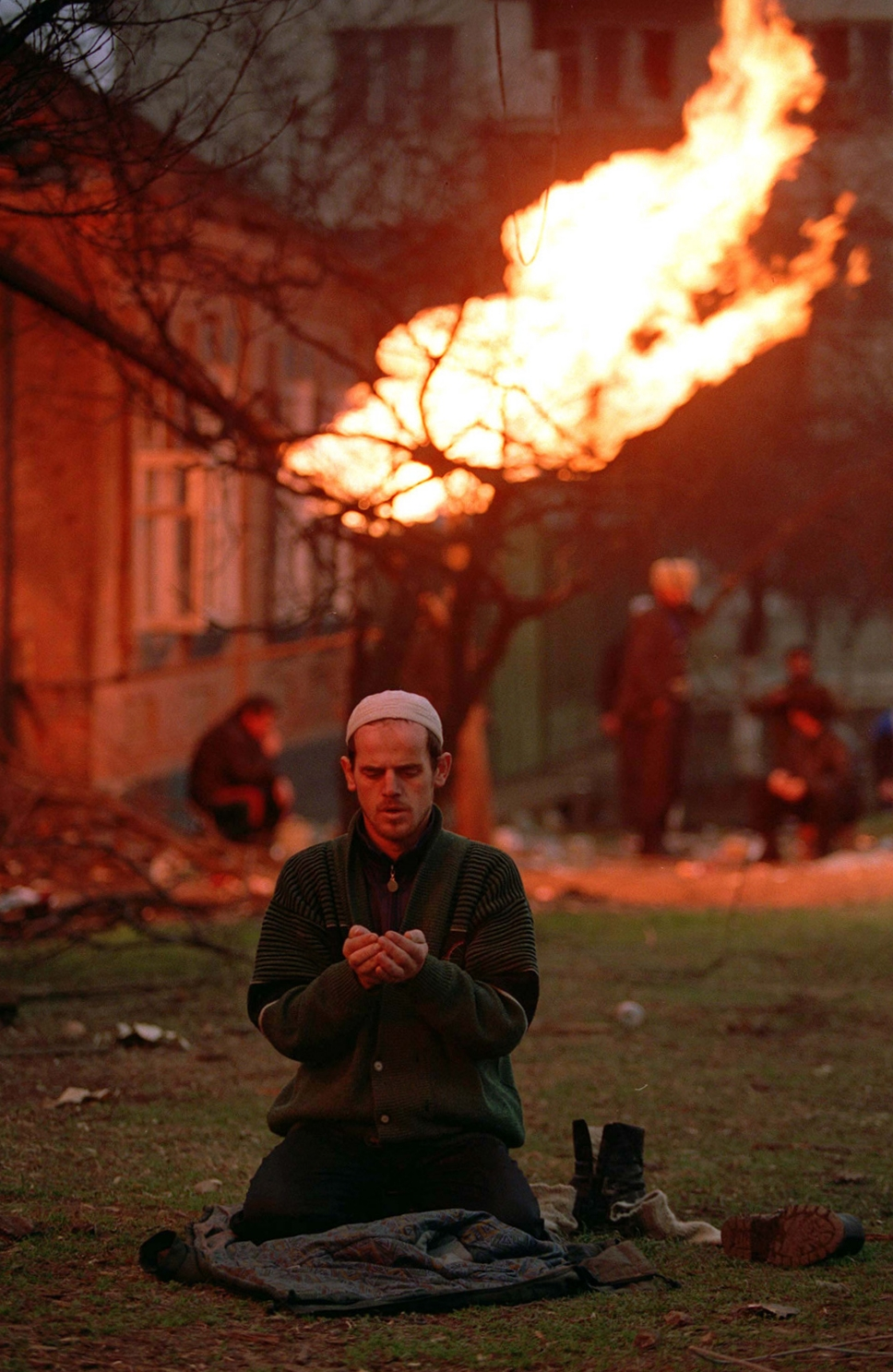 A Chechen man prays during the battle for Grozny. The flame in the background is coming from a gas pipeline which was hit by shrapnel. New file created to preserve featured picture candidacy. Fixed tilt - User:Tomtheman5